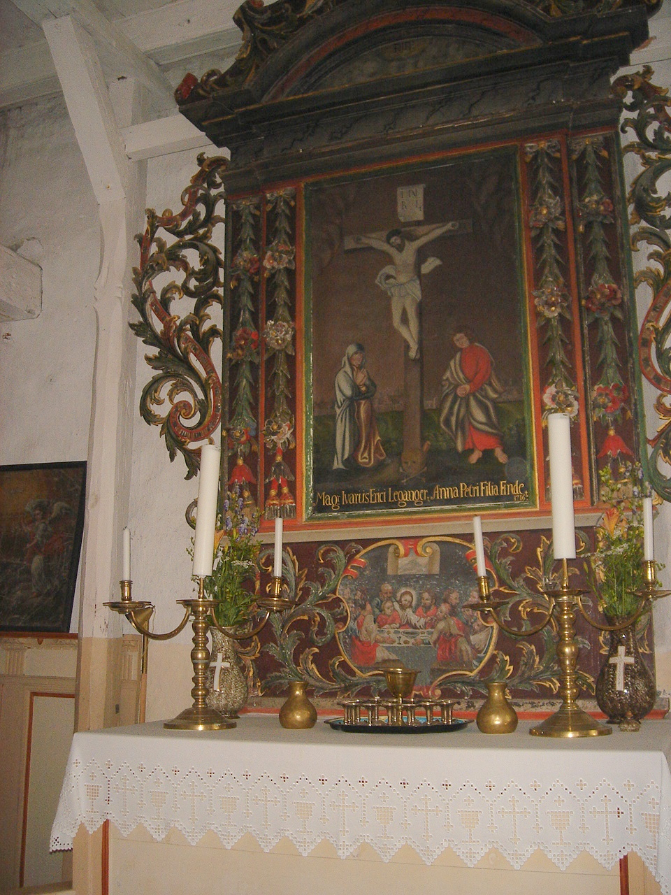 Altar piece in Kvamsøy church from 1716 by Jørgen Christopher Schauer.